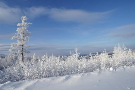 Taiga forest in winter — near Tynda, in Amur Oblast, far eastern Russia.